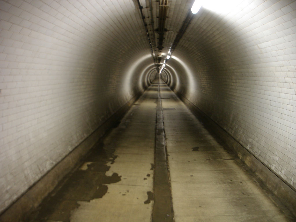 Woolwich Foot Tunnel, London, UK. Photo taken by me 19:22, 21 April 2006 (UTC)